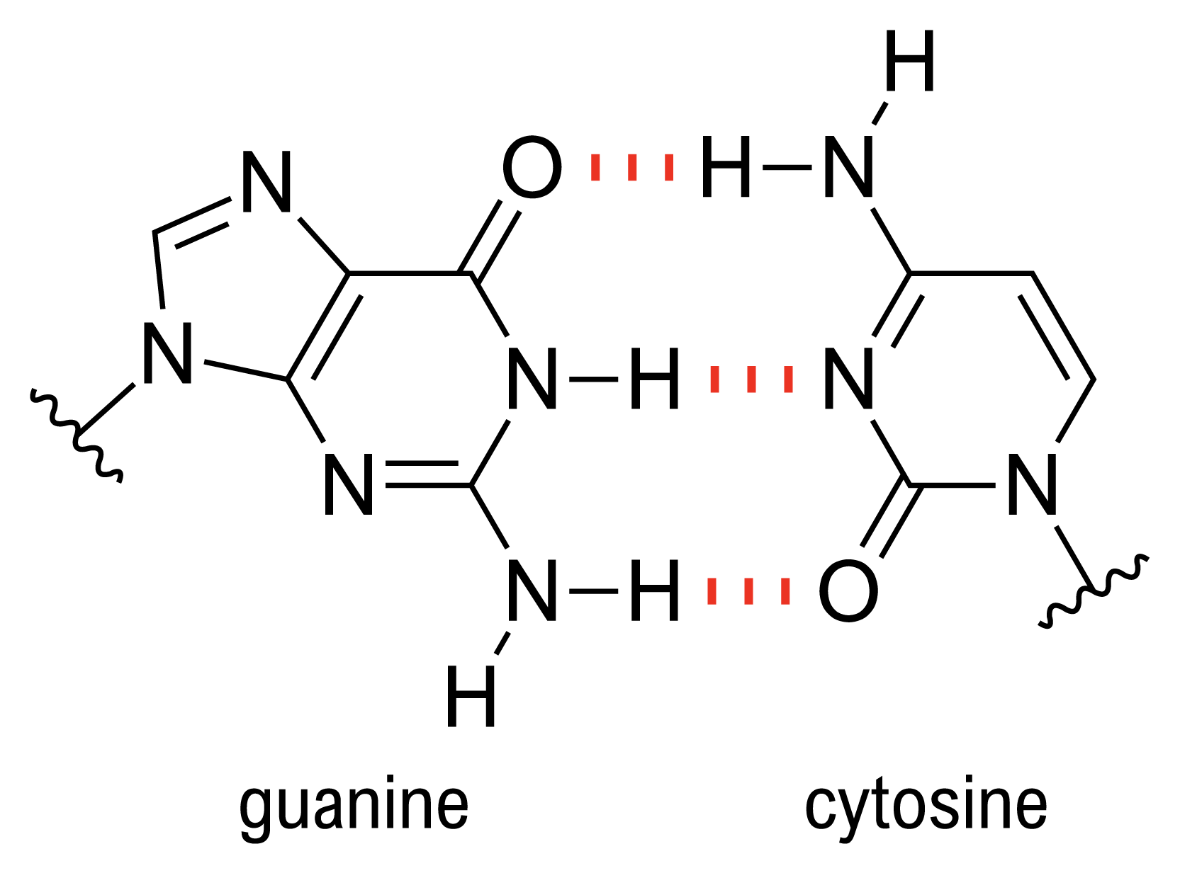 image of the canonical watson-crick base pair between the guanine and cytosine nucleobases